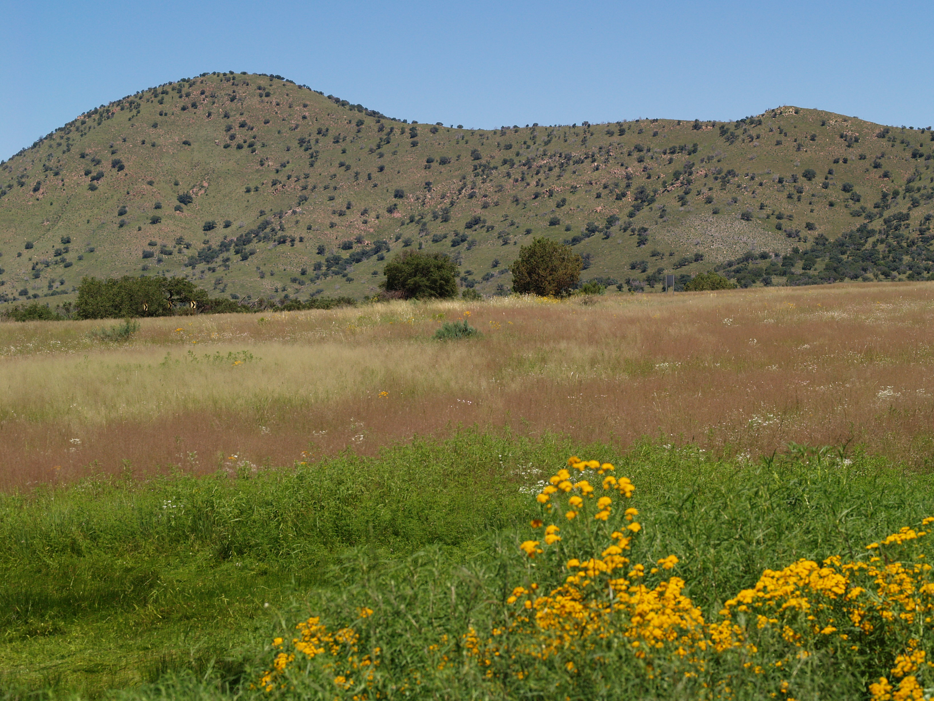 Bullfrog Pond Canelo Hills Santa Cruz Co, AZ USA 9-4-2010